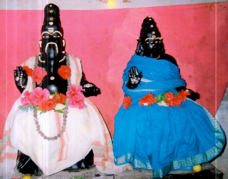 Agathiyar Lopamudra in maravakadu near mannargudi